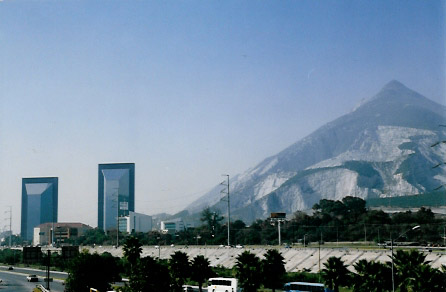 Cerro de las Mitras's south/southeast face, seen from the Santa Catarina River.